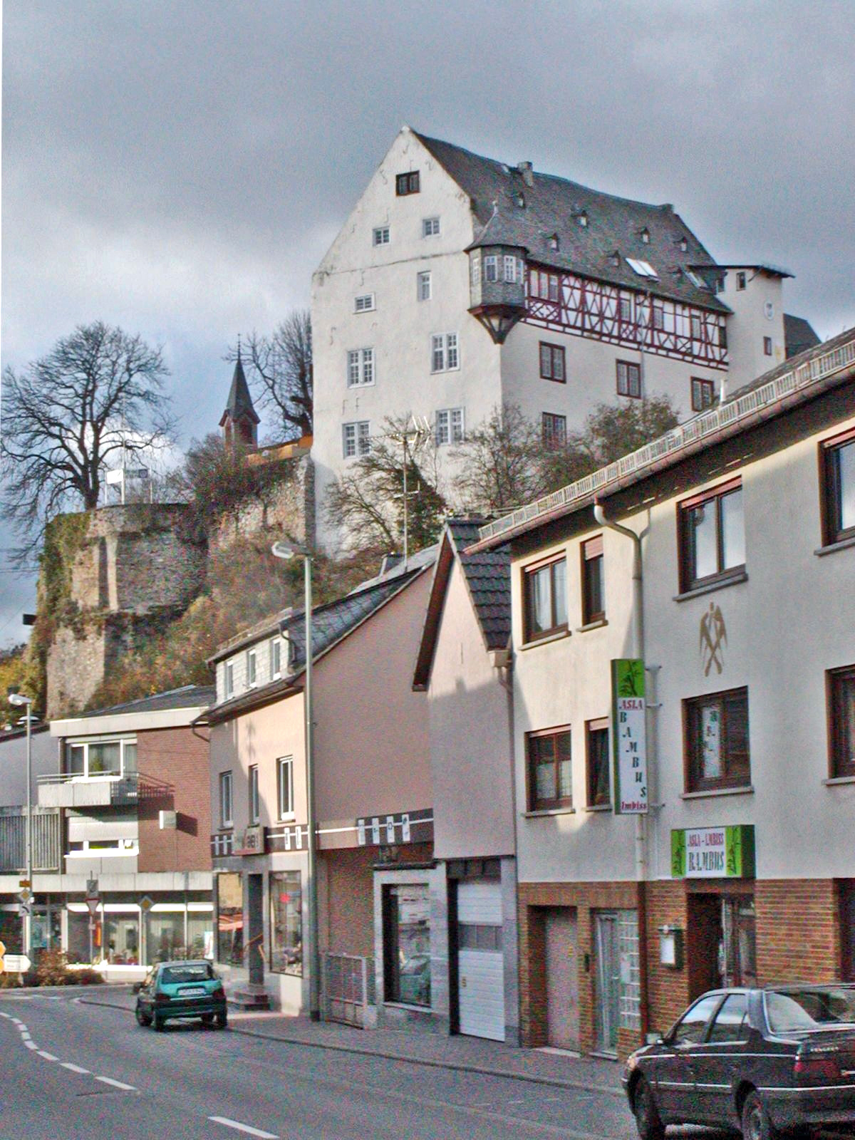 Castle of Katzenelnbogen in Rhineland-Palatinate